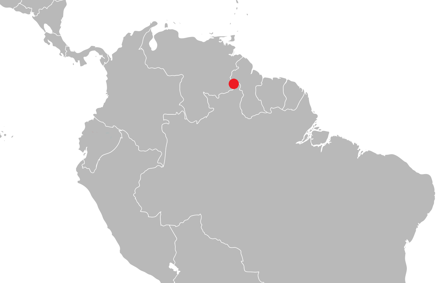 Geographical distribution map of Oreophrynella macconnelli (Watefall toad).